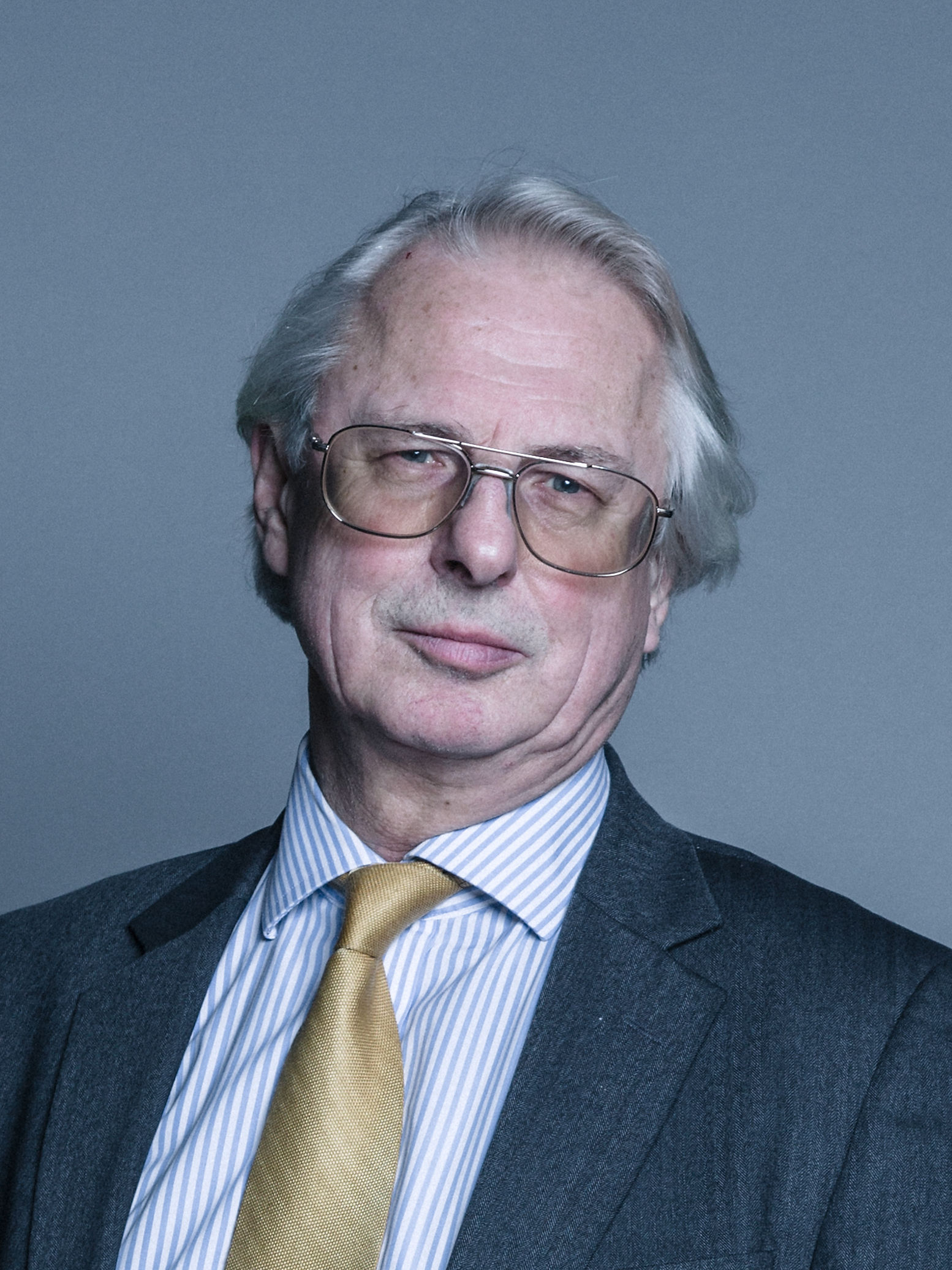 Official portrait of Lord Trees